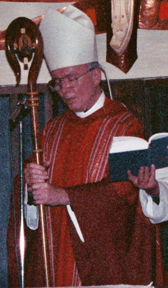 James Francis Cardinal Stafford, as archbishop of Denver. Taken at St. Martin de Porres church in Boulder, Colorado (date unknown). This picture is from my personal collection.